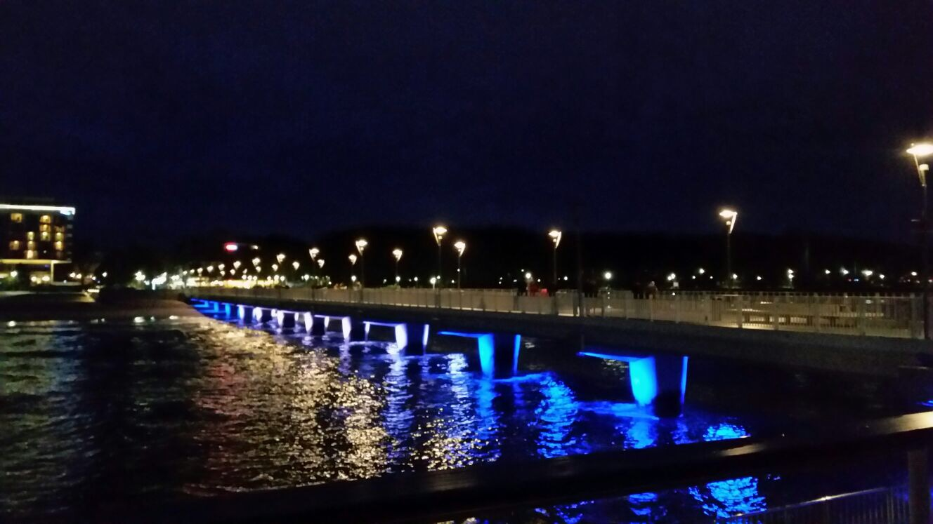 Ilumination of the piers December 2017